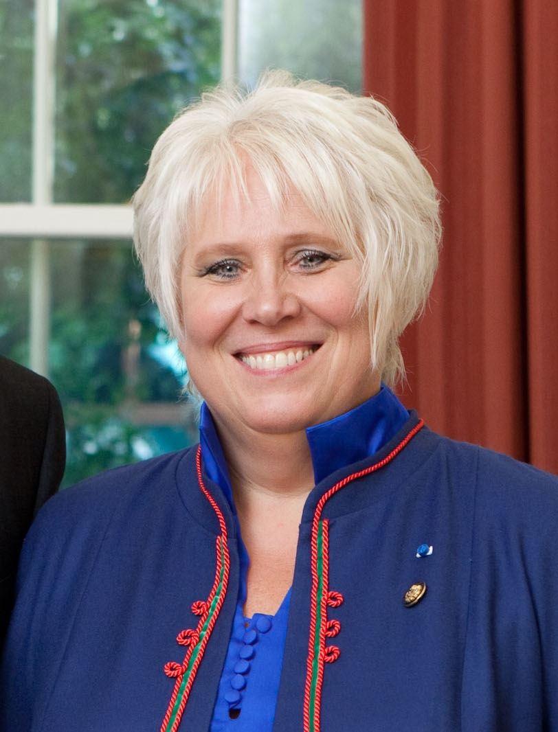 Estonian Ambassador to USA Marina Kaljurand, in the Oval Office.